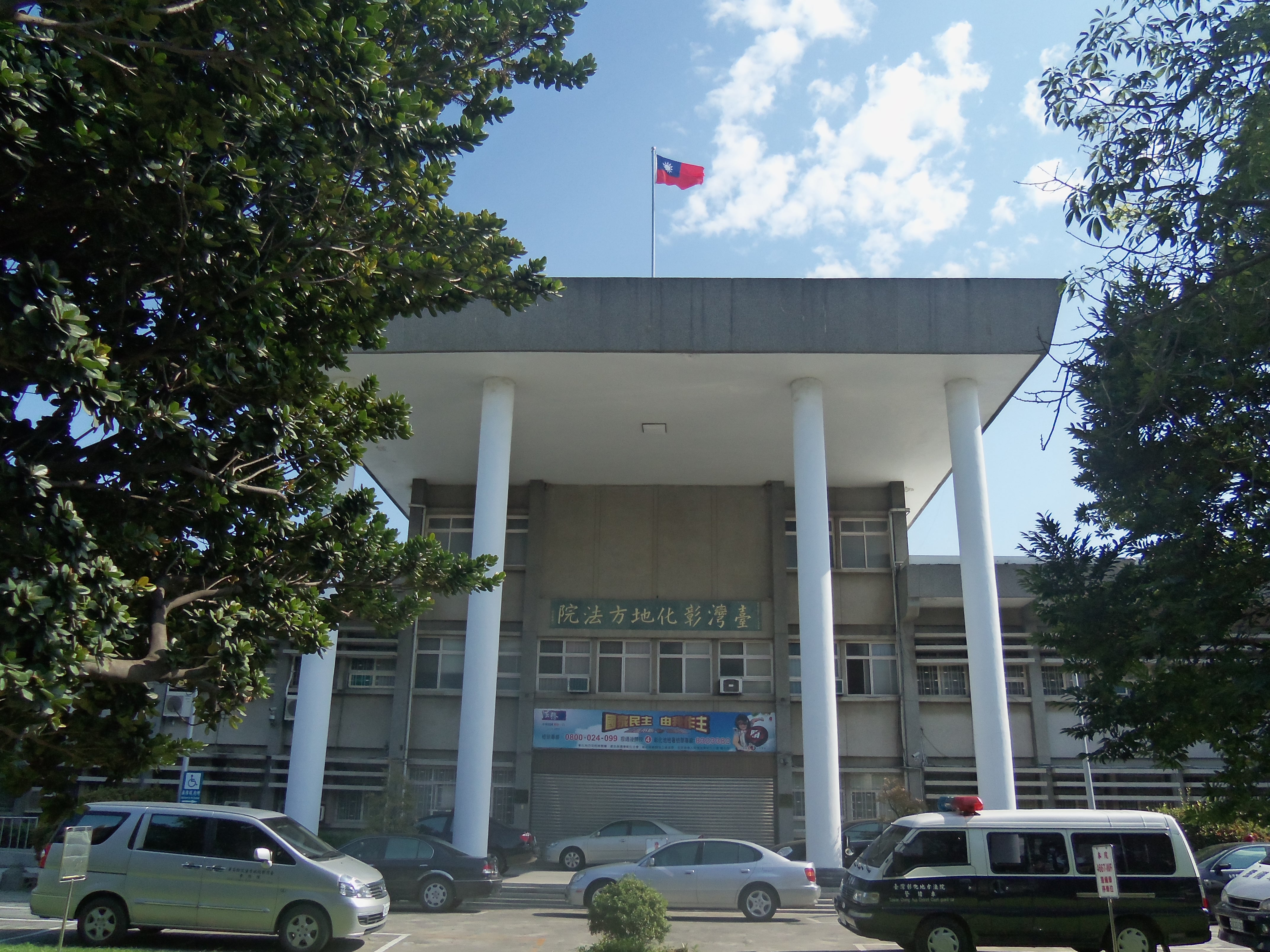 Taiwan Changhua District Court中文（台灣）: 彰化地方法院